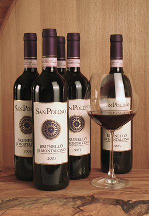 Organic Italian Wine from Tuscany